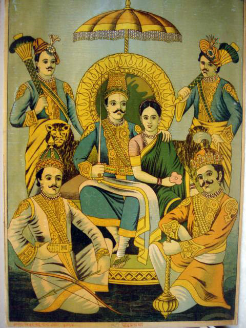 The five Pandavas with Draupadi (bazaar art, c.1910-20)